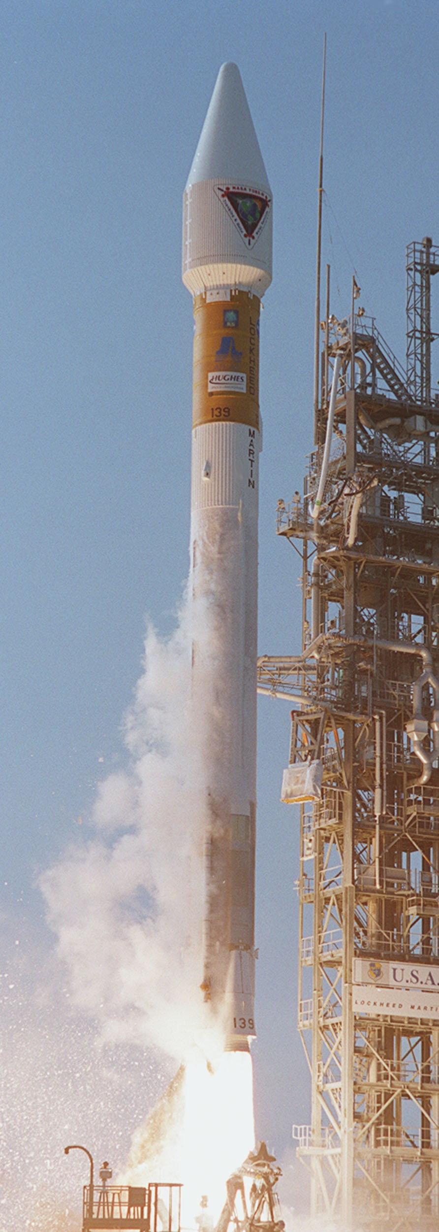 NASA's Tracking and Data Relay Satellite (TDRS-H) rises into the blue sky from Pad 36A, Cape Canaveral Air Force Station. Liftoff occurred at 8:56 a.m. EDT aboard an Atlas IIA/Centaur rocket. One of three satellites (labeled H, I and J) being built by the Hughes Space and Communications Company, the latest TDRS uses an innovative springback antenna design. A pair of 15-foot-diameter, flexible mesh antenna reflectors fold up for launch, then spring back into their original cupped circular shape on orbit. The new satellites will augment the TDRS system's existing S- and Ku-band frequencies by adding Ka-band capability. TDRS will serve as the sole means of continuous, high-data-rate communication with the space shuttle, with the International Space Station upon its completion, and with dozens of unmanned scientific satellites in low earth orbit.